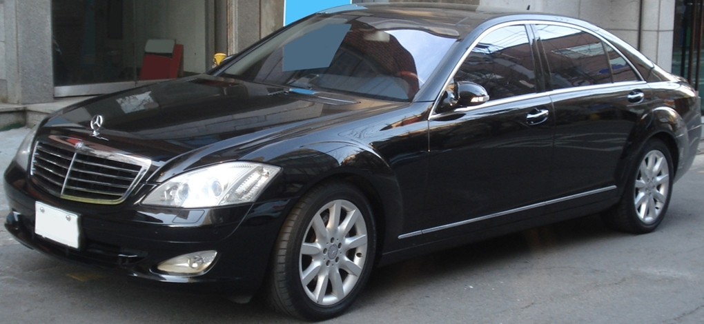 Mercedes-Benz S-Class